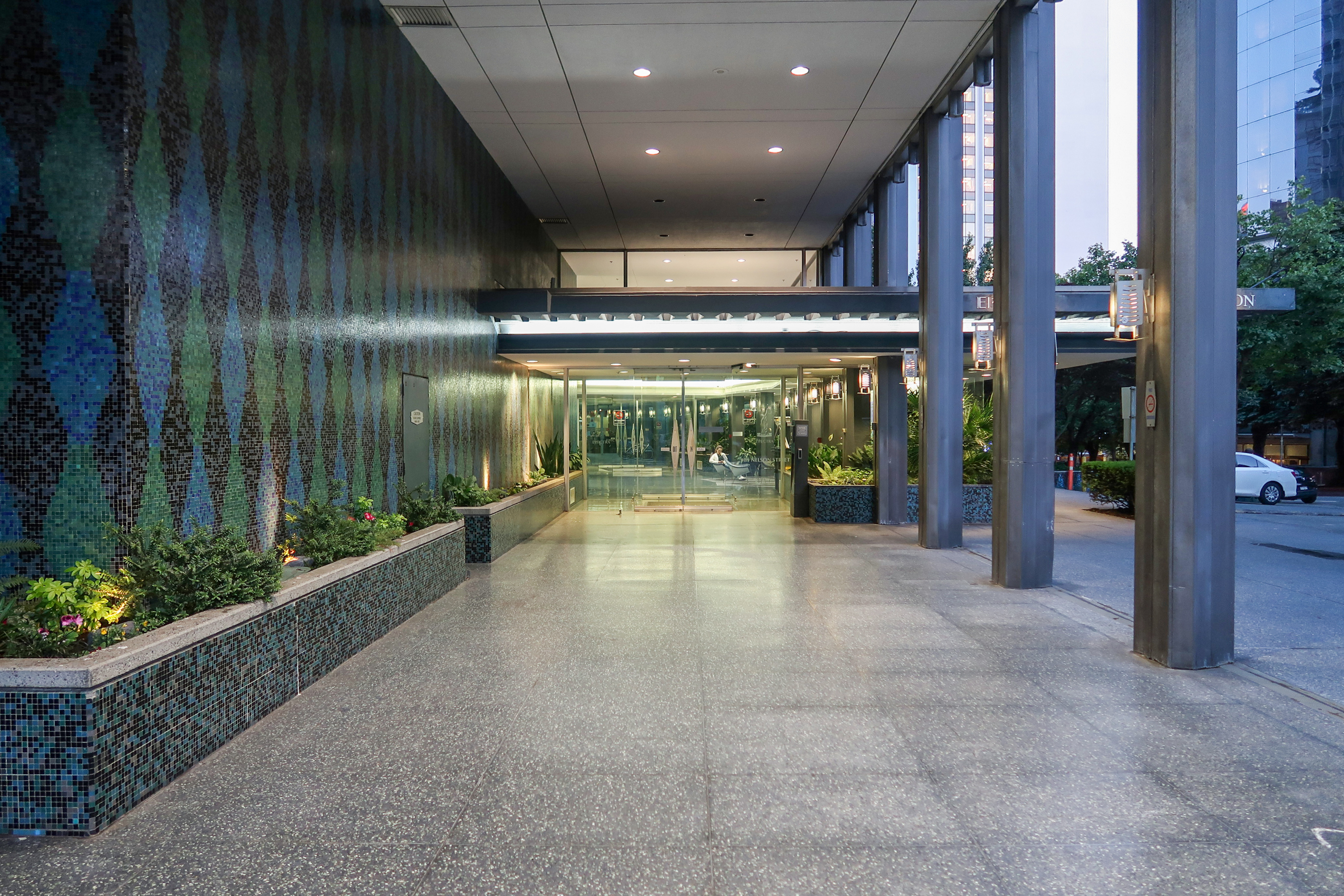 Electra Building Entrance